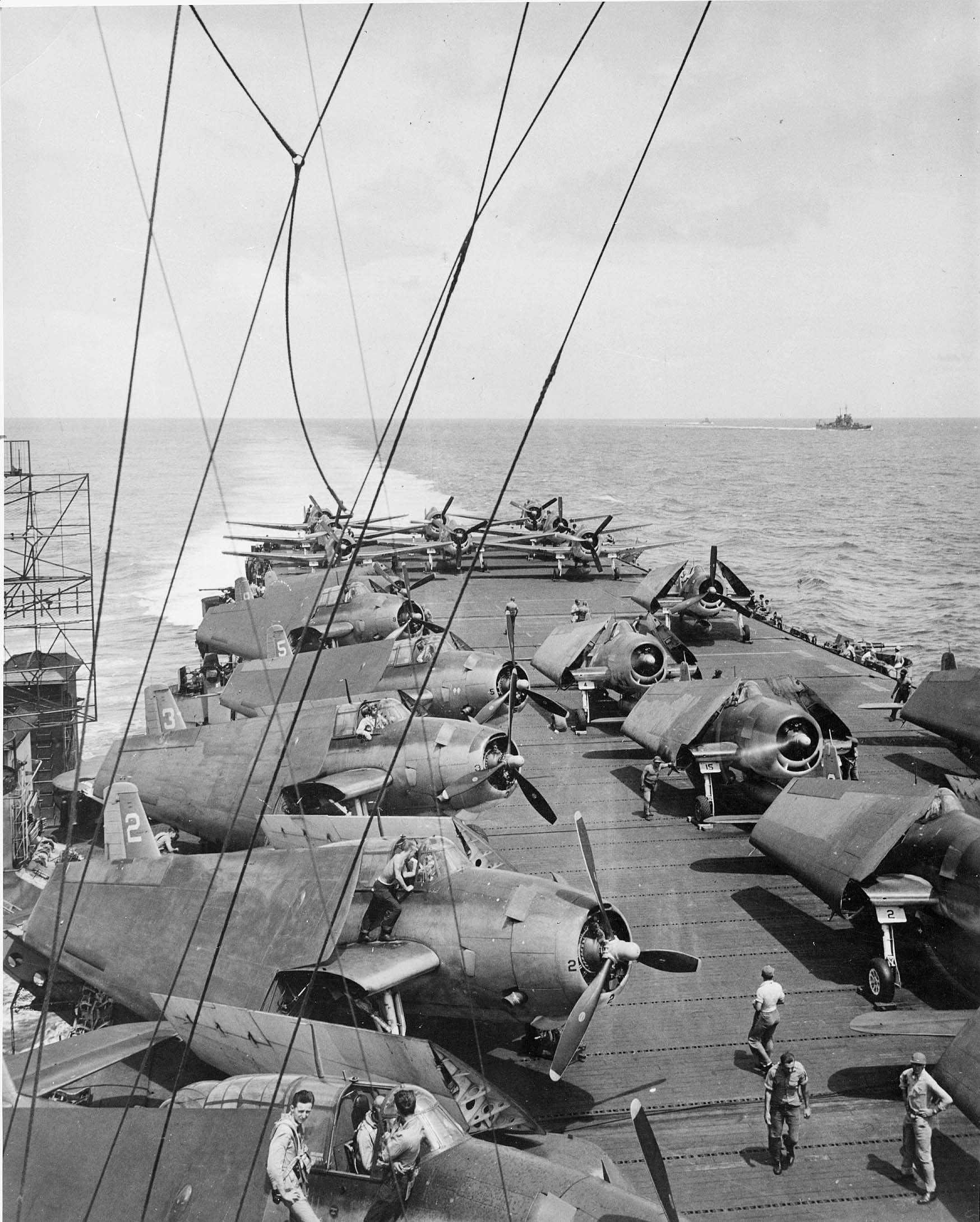 U.S. Navy Grumman TBM-3 Avenger torpedo bombers and Grumman F6F Hellcat fighters (right and aft) of Carrier Air Group 50 (CVLG-50) on the deck of the light aircraft carrier USS Bataan (CVL-29) in 1944.